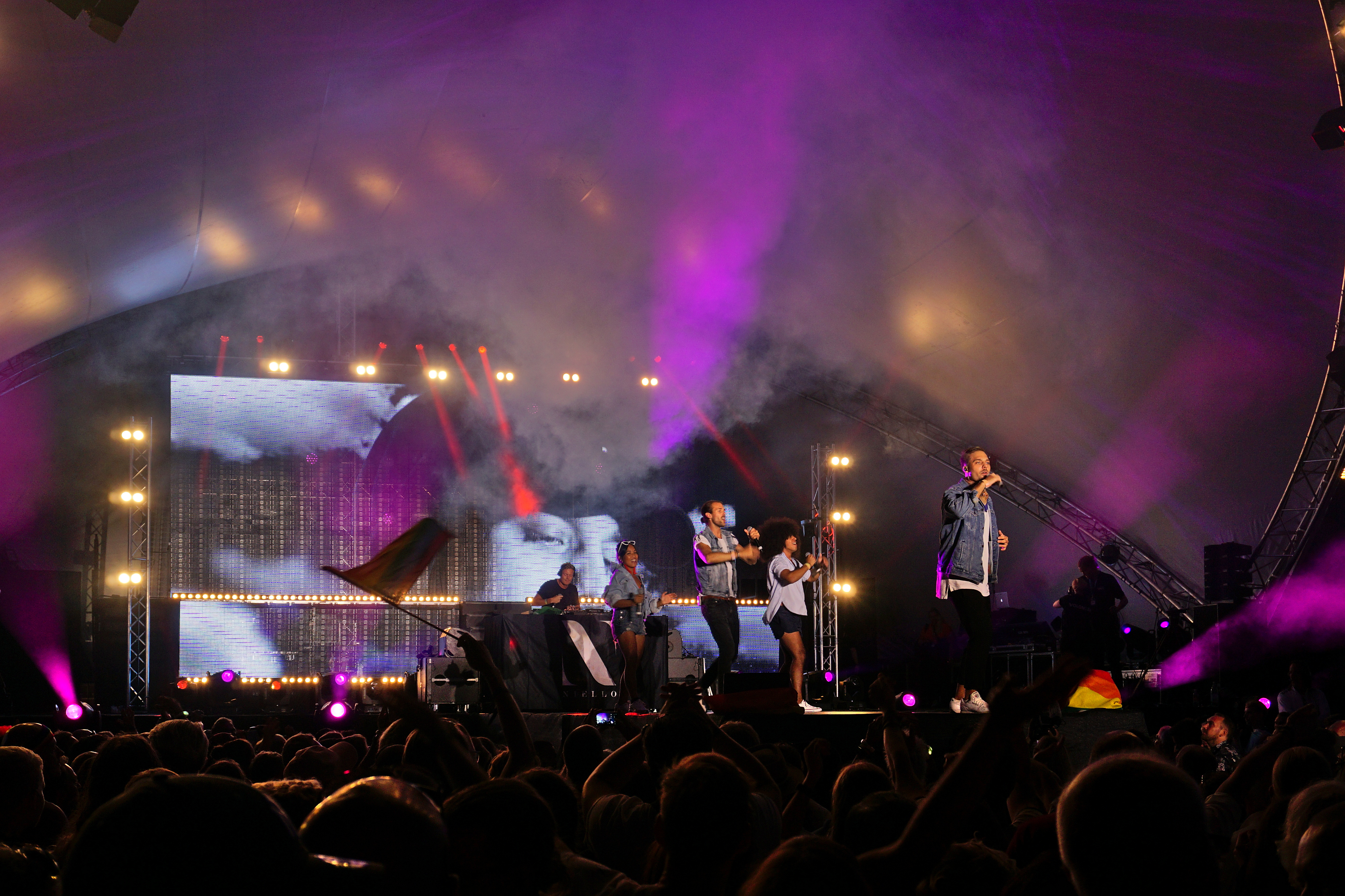 Niello at EuroPride 2018